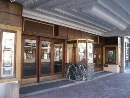 Warner Theatre, Torrington, Connecticut. Ticket booth, entrance way below marquee.